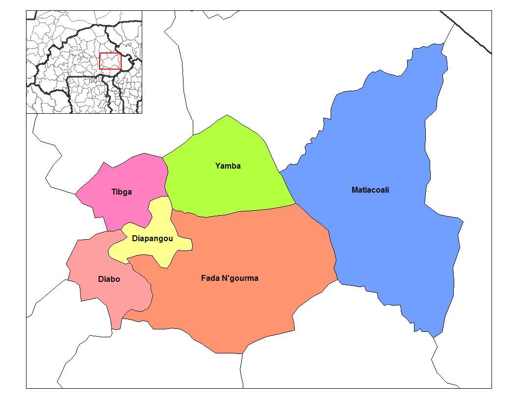 This map has been uploaded by Osiris fancy from to enable the Wikimedia Atlas of the World. Original uploader to was Rarelibra. Osiris fancy is not the creator of this map. Licensing information is below. Map of the departments of Gourma province in Burkina Faso. Created by Rarelibra 03:19, 30 September 2006 (UTC) for public domain use, using MapInfo Professional v8.5 and various mapping resources.